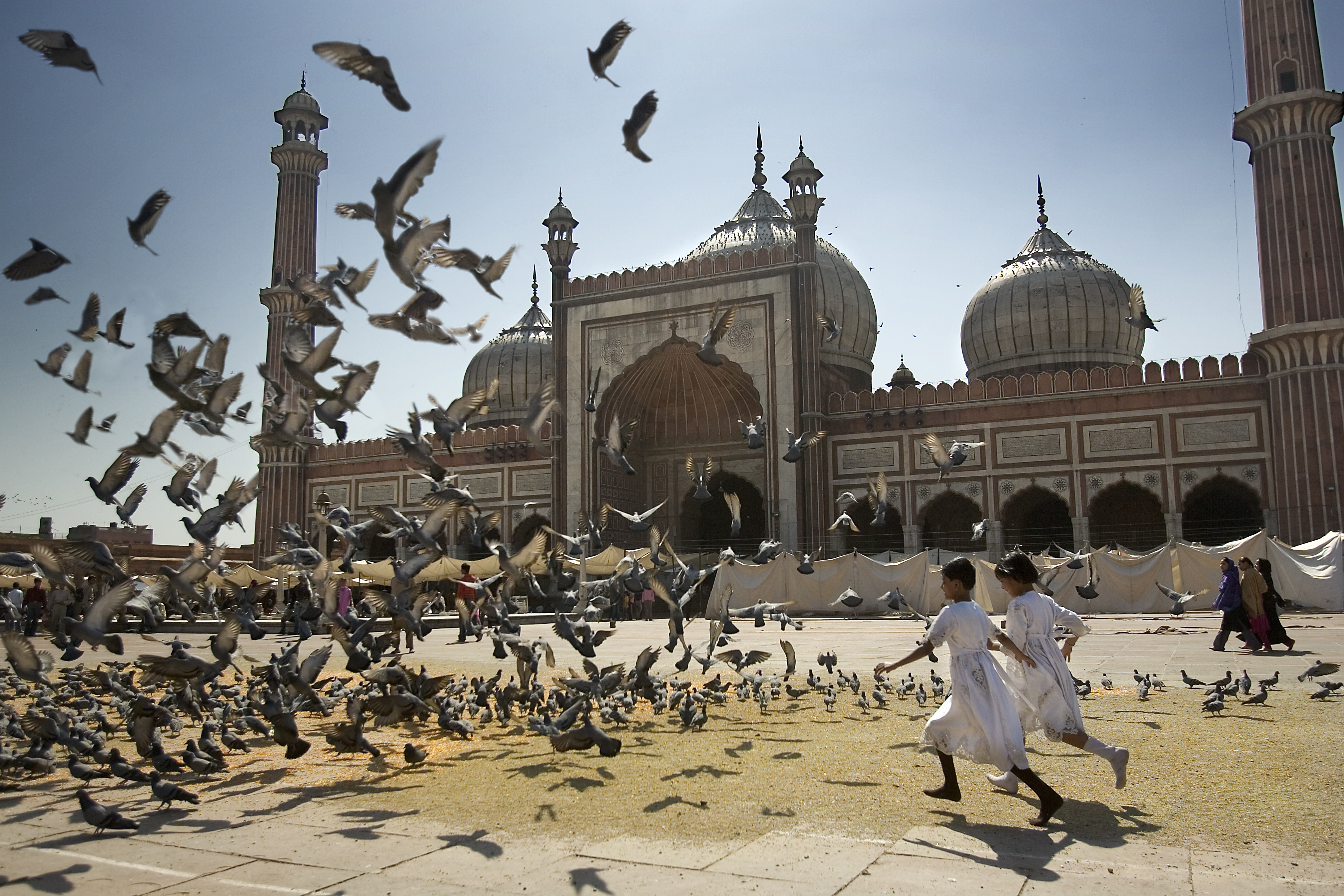 Girls chasing doves in the Jama Masjid the main mosque in Delhi India